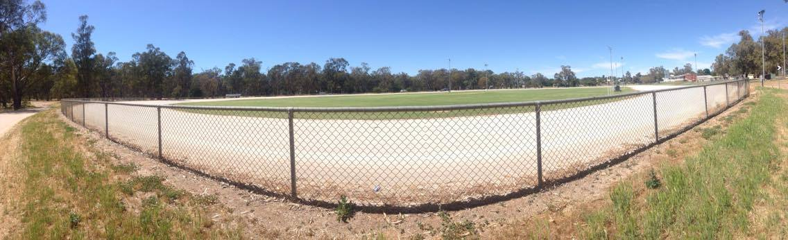 Panoramic views of the Oval, surrounded by the former Harness Racing Course, of the Nyah Recreation Reserve (taken from the Northern End, 17 November 2016).